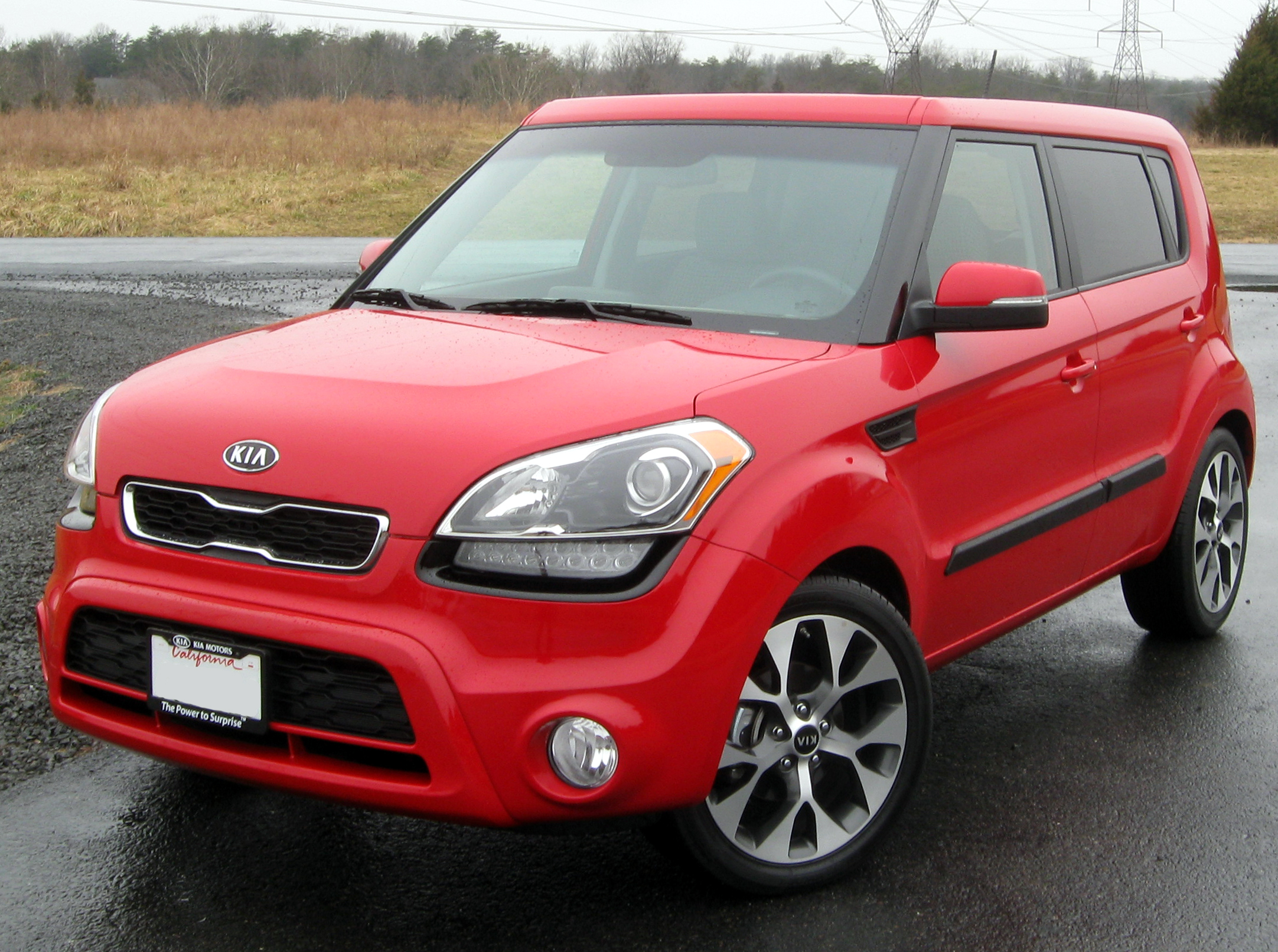 2012 Kia Soul photographed in Centreville, Virginia, USA.